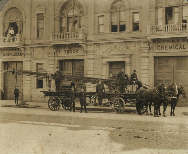 The Houston Fire Museum still owns the photographed truck, and it still runs. Far left on ground is John L. Little Senior. This photograph is from his collection, Cobble Streets.